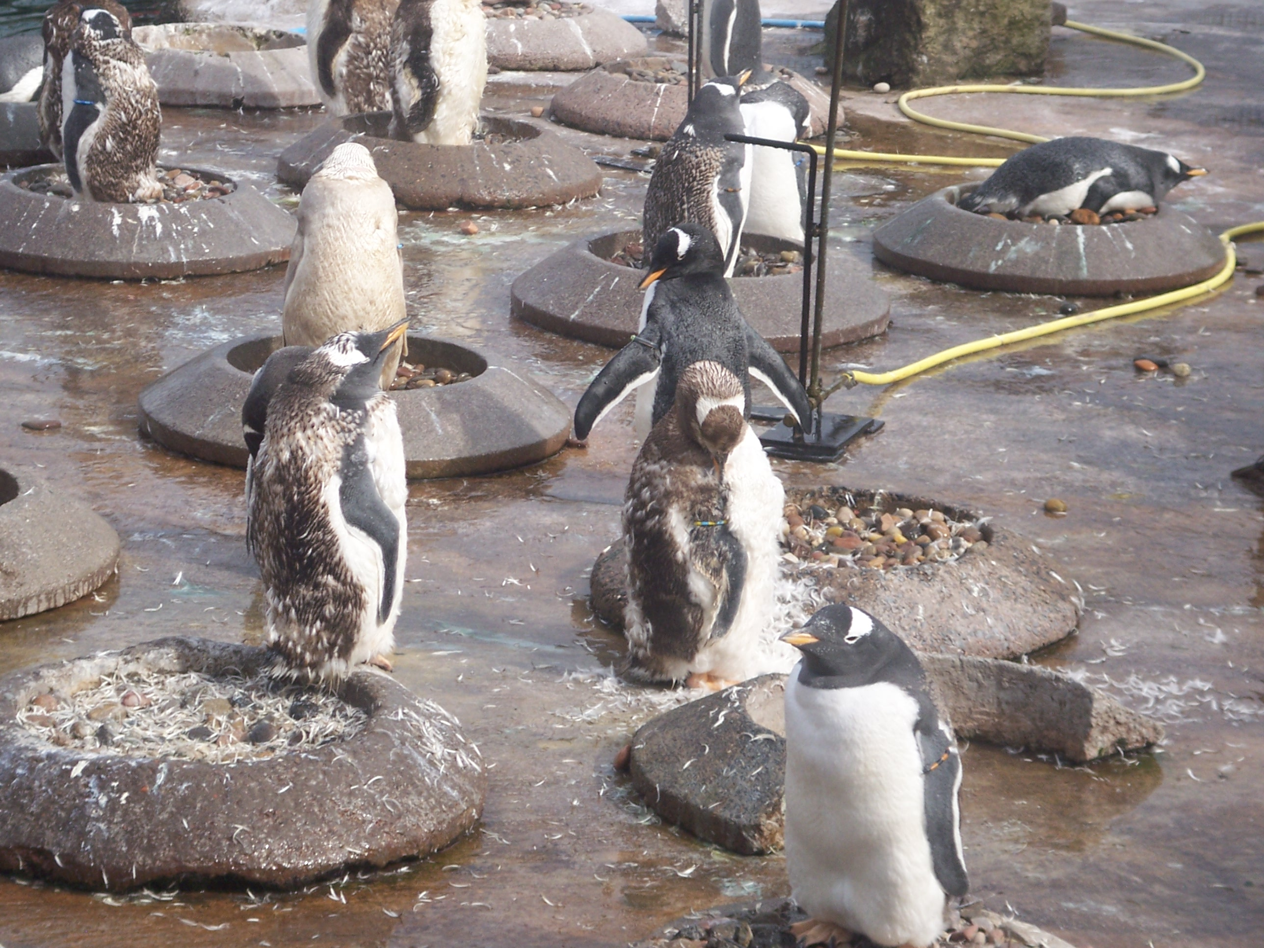 Penguins nesting at Edinburgh zoo